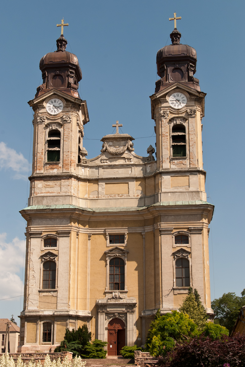 Parish Church, Tata. Architect: Jakab Fellner.